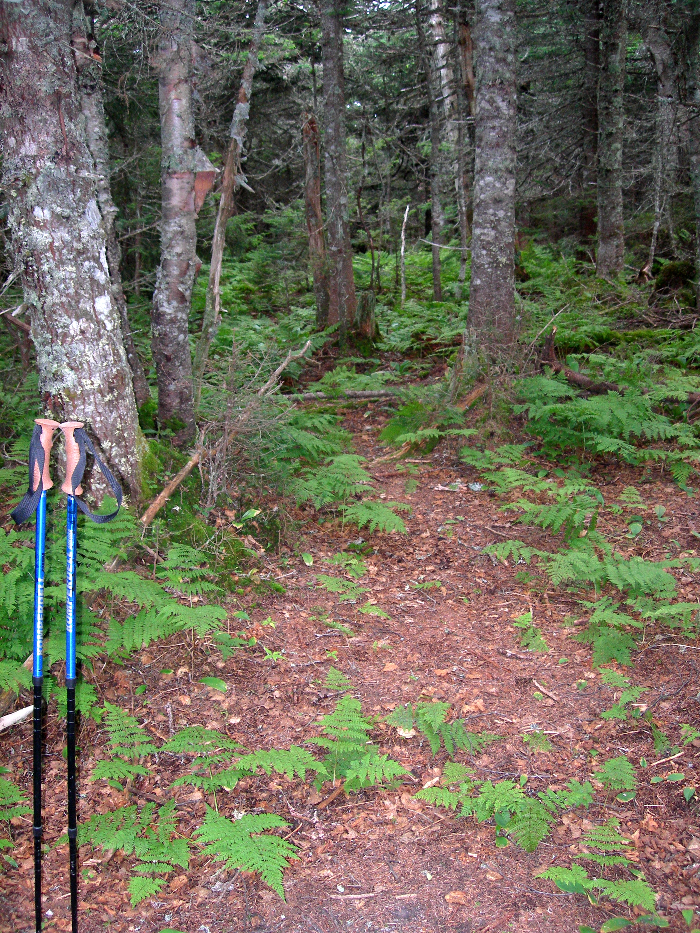 Summit area, West Sleeper Mt., New Hampshire